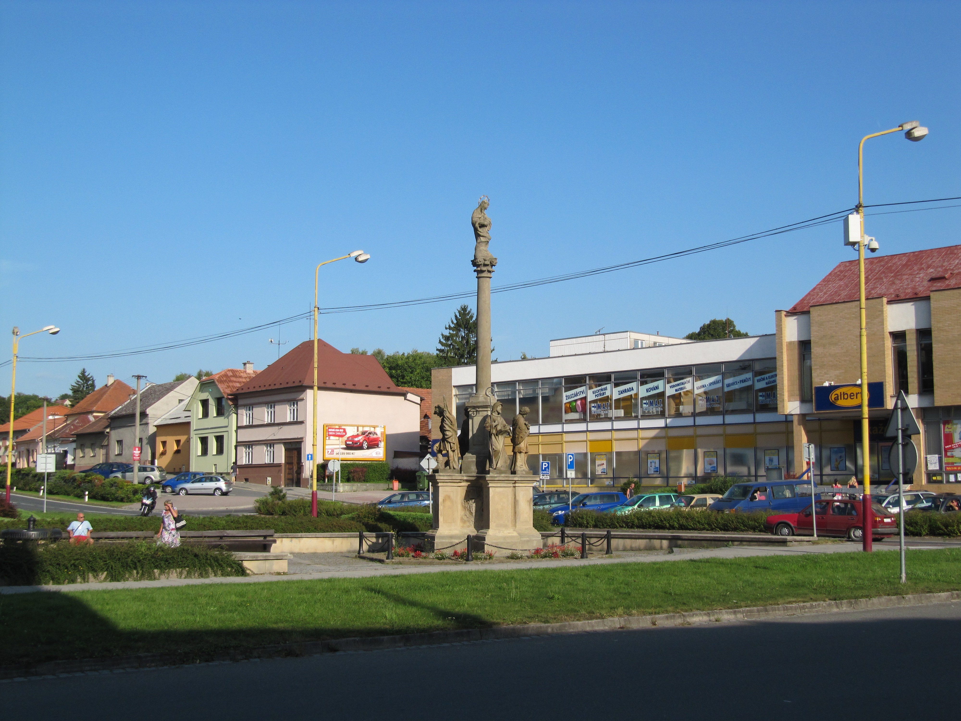 Vizovice in Zlín District, Czech Republic. Square Masarykovo náměstí, Marian Column and shopping center.